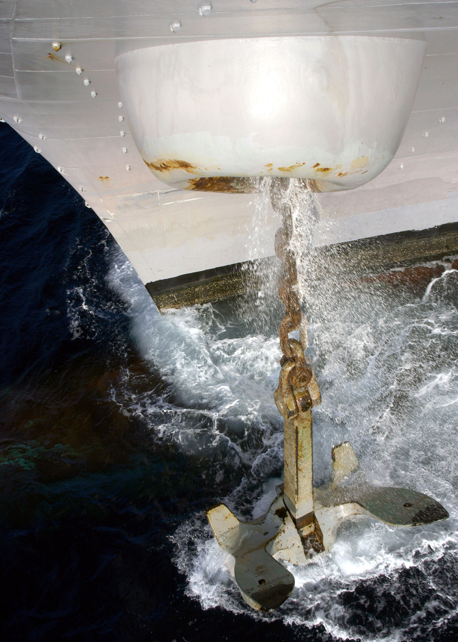 Atlantic Ocean (Oct. 15, 2005) - A six-ton Navy standard stockless anchor clears the water as it is hauled up aboard the amphibious assault ship USS Wasp (LHD 1). Wasp is currently conducting deck landing qualifications in the Atlantic Ocean. U.S. Navy photo by Photographer's Mate Airman Zachary L. Borden (RELEASED)